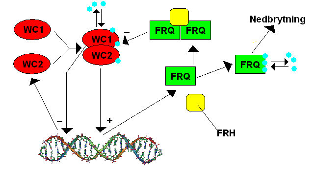 The central molecular mechanisms of the circadian clock in Neurospora crassa. The DNA molecule is from DNA Overview.png by Michael Ströck(GFDL).